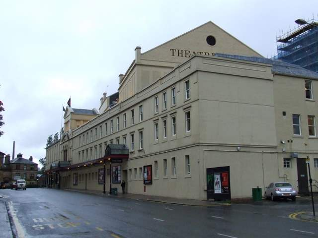 Theatre Royal On Hope Street.